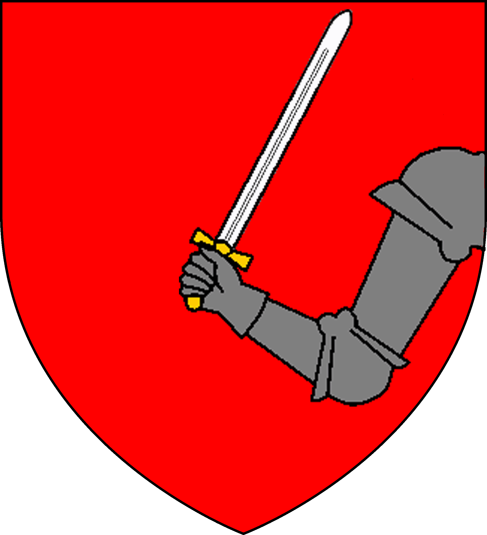 Escudo de armas de la casa Spadafora